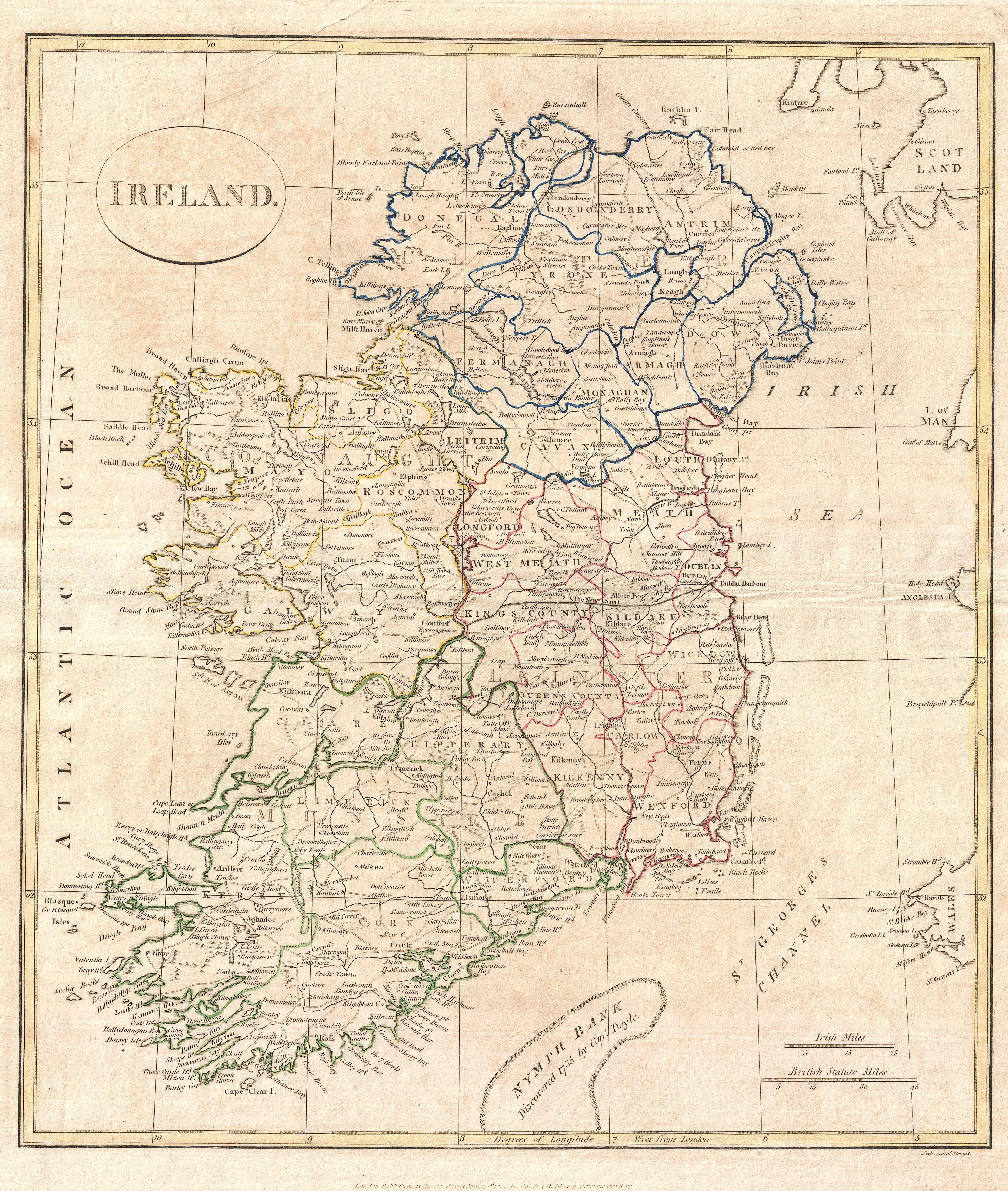 A fine 1799 map of Ireland by the English map publisher Clement Cruttwell. Map shows Ireland's four provinces, which remain the same to this day. In the north is Ulster, Connaught in the west, Leinster in the east, and Munster in the south. Leinster is comprised of Carlow, Dublin, Kildare, Kilkenny, Laois, Longford, Louth, Meath, Offaly, Westmeath, Wexford and Wicklow. Munster is made up of Clare, Cork, Kerry, Limerick, Tipperary and Waterford. In Connaught are Galway, Leitrim, Mayo, Roscommon and Sligo. Antrim, Armagh, Down, Fermanagh, Londonderry, Tyrone, Cavan, Donegal, and Monaghan make up Ulster. The map also shows some major roads, river ways, mountains and other topographical features. Off the coast, Cruttwell makes note of various shoals and, just south of the island, the Nymph Bank, discovered in 1735 by Captain Doyle. Features two units of measurement in the lower-right quadrant: Irish Miles and British Statute Miles. Outline color and fine copper plate engraving in the minimalist English style prevalent in the late 18th and early 19th centuries. Drawn by G. G. and J. Robinson of Paternoster Row, London, for Clement Cruttwell's 1799 Atlas to Cruttwell's Gazetteer.